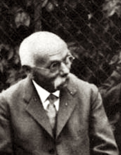 Friedrich Boedeker